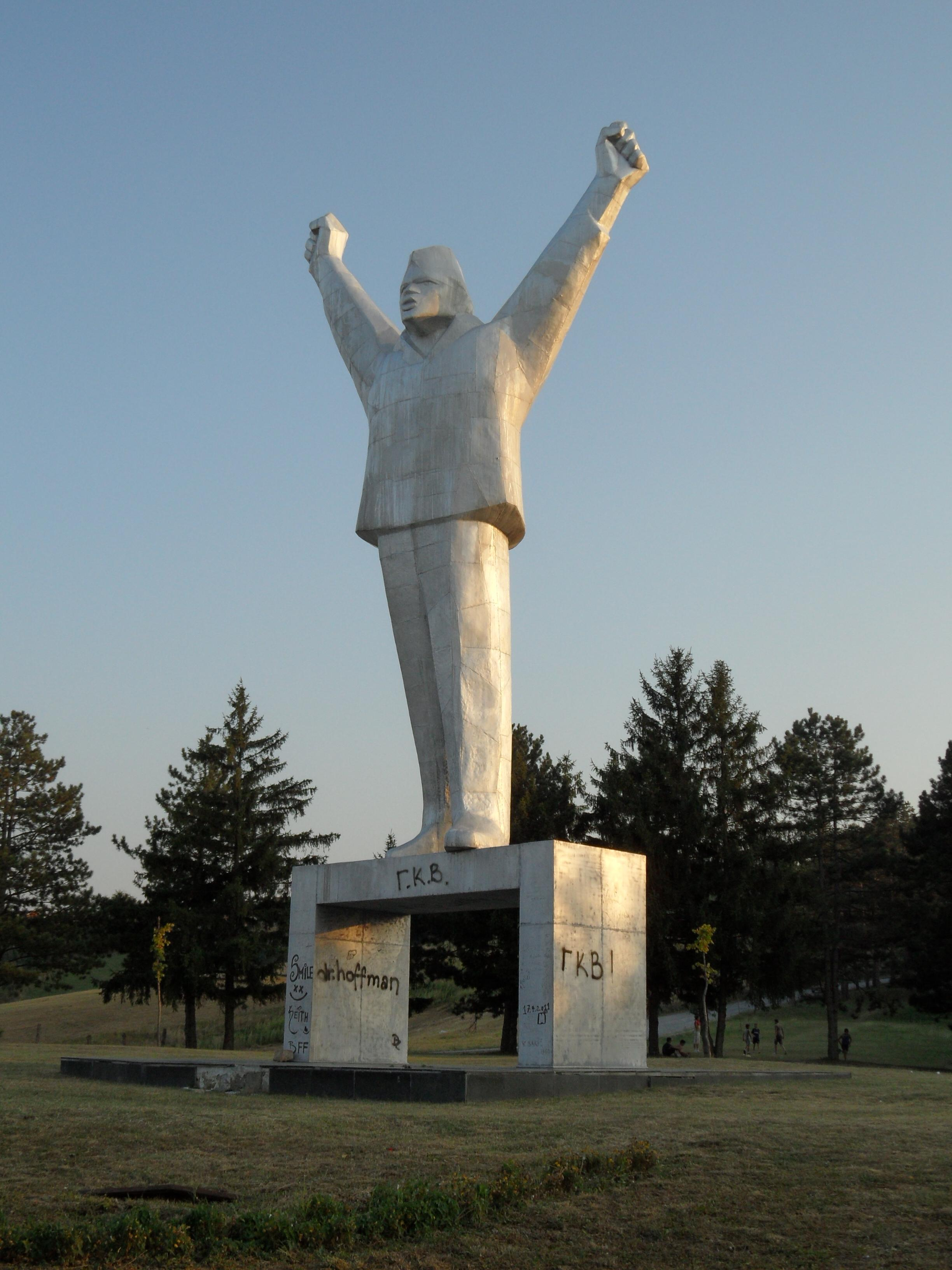 Memorial for partisan leader Stjepan Filopvic in Valjevo (Serbia)